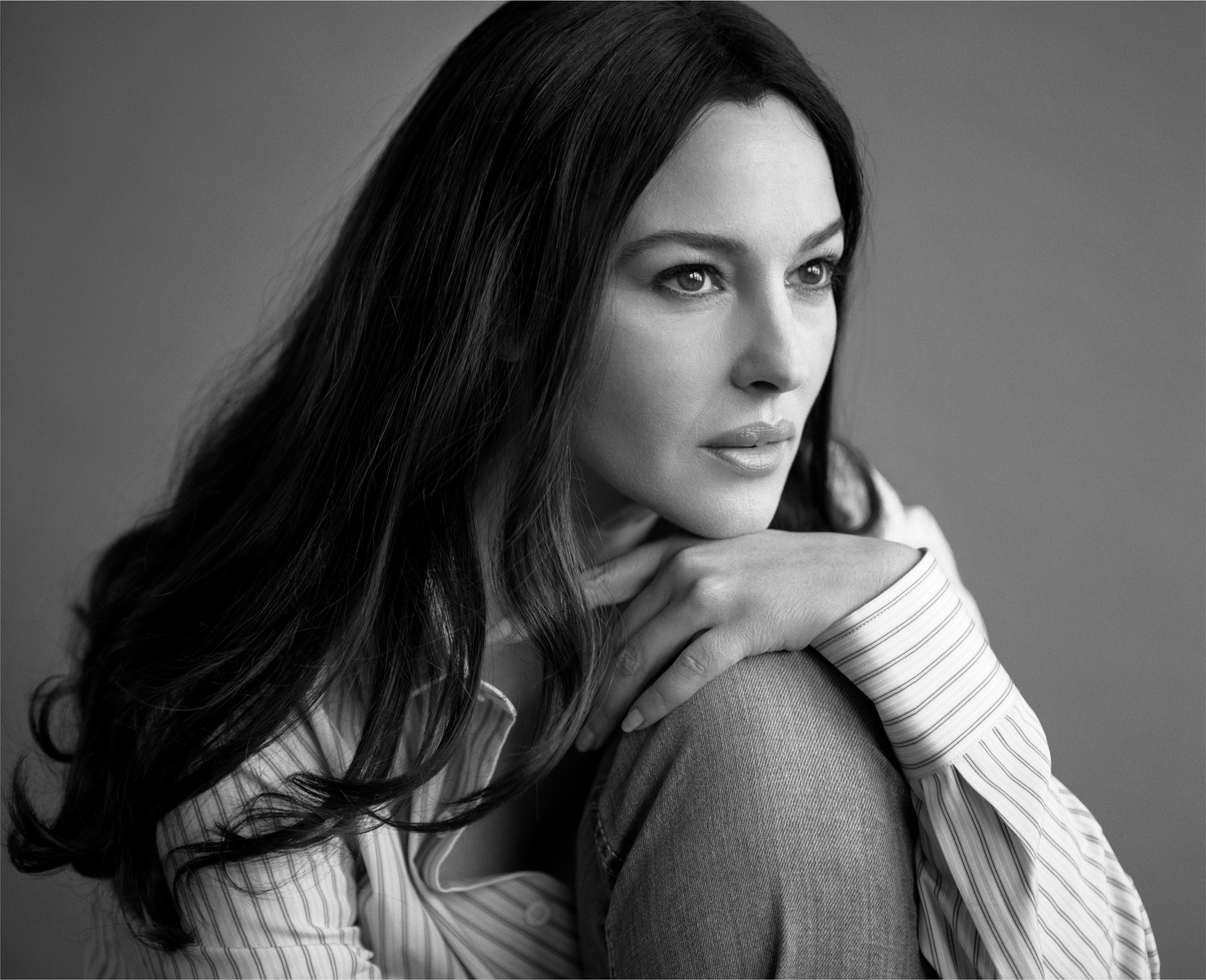 Monica Bellucci by Eric Nehr